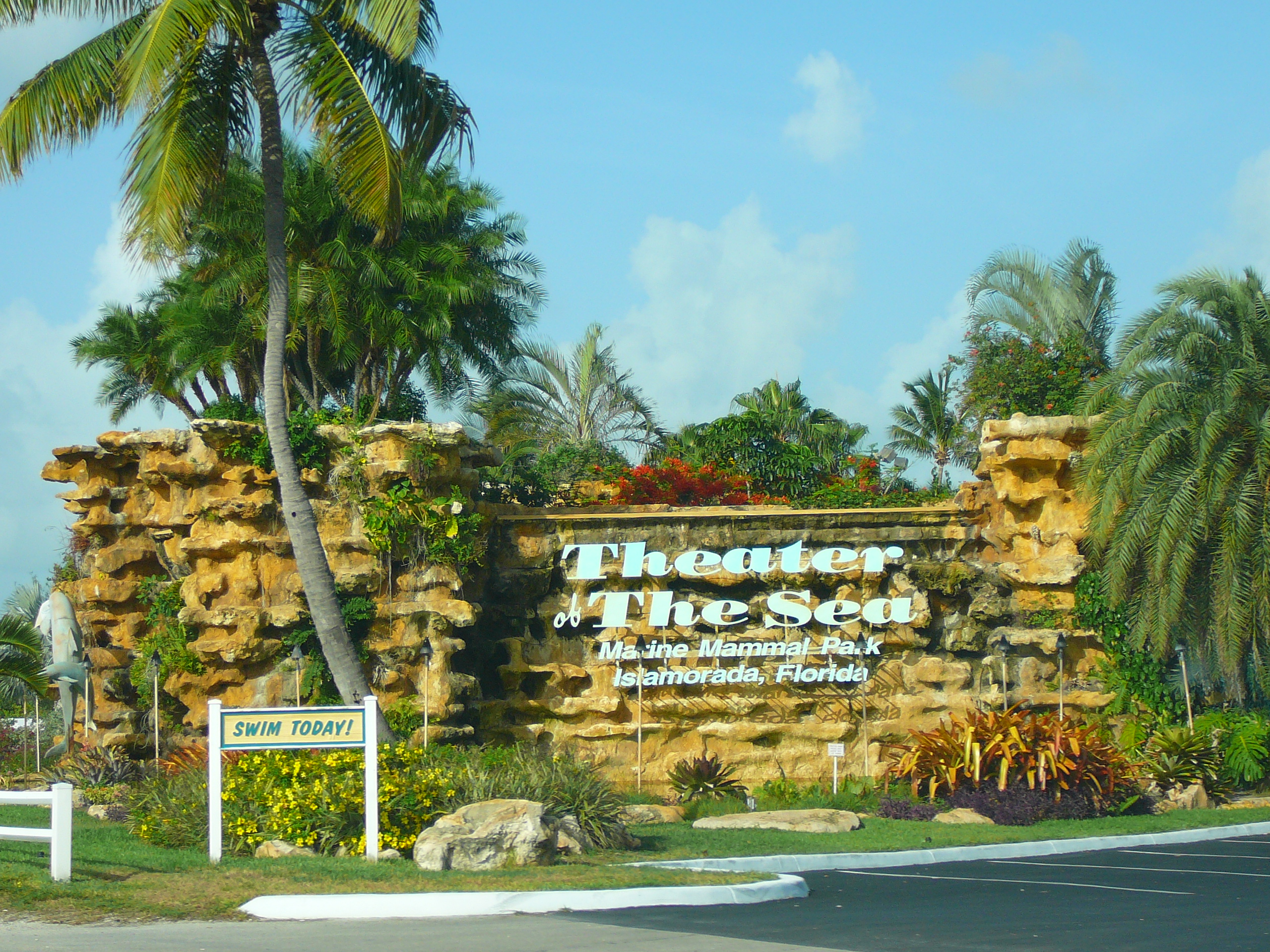 Digital photo taken by Marc Averette. Entrance sign to Theater of the Sea in Windley Key in the Florida Keys